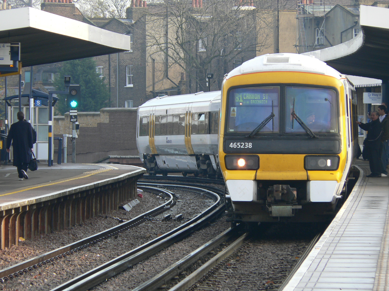 South Eastern Trains Class 465 EMU 465238 at platform 2 of Greenwich station in south-east London with a service to London Cannon Street.